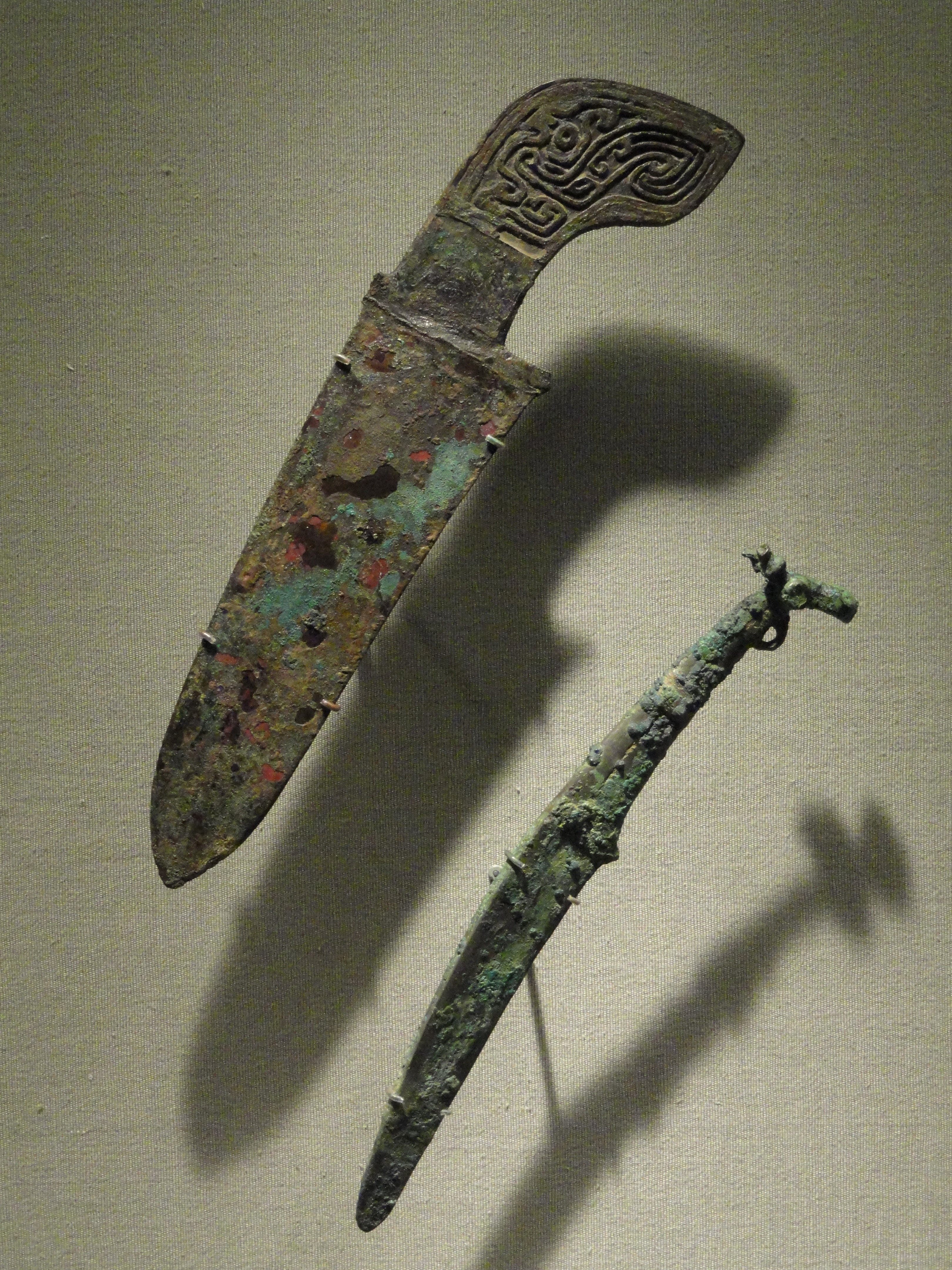 Exhibit in the San Diego Museum of Art, San Diego, California, USA. This artwork is old enough so that it is in the public domain.